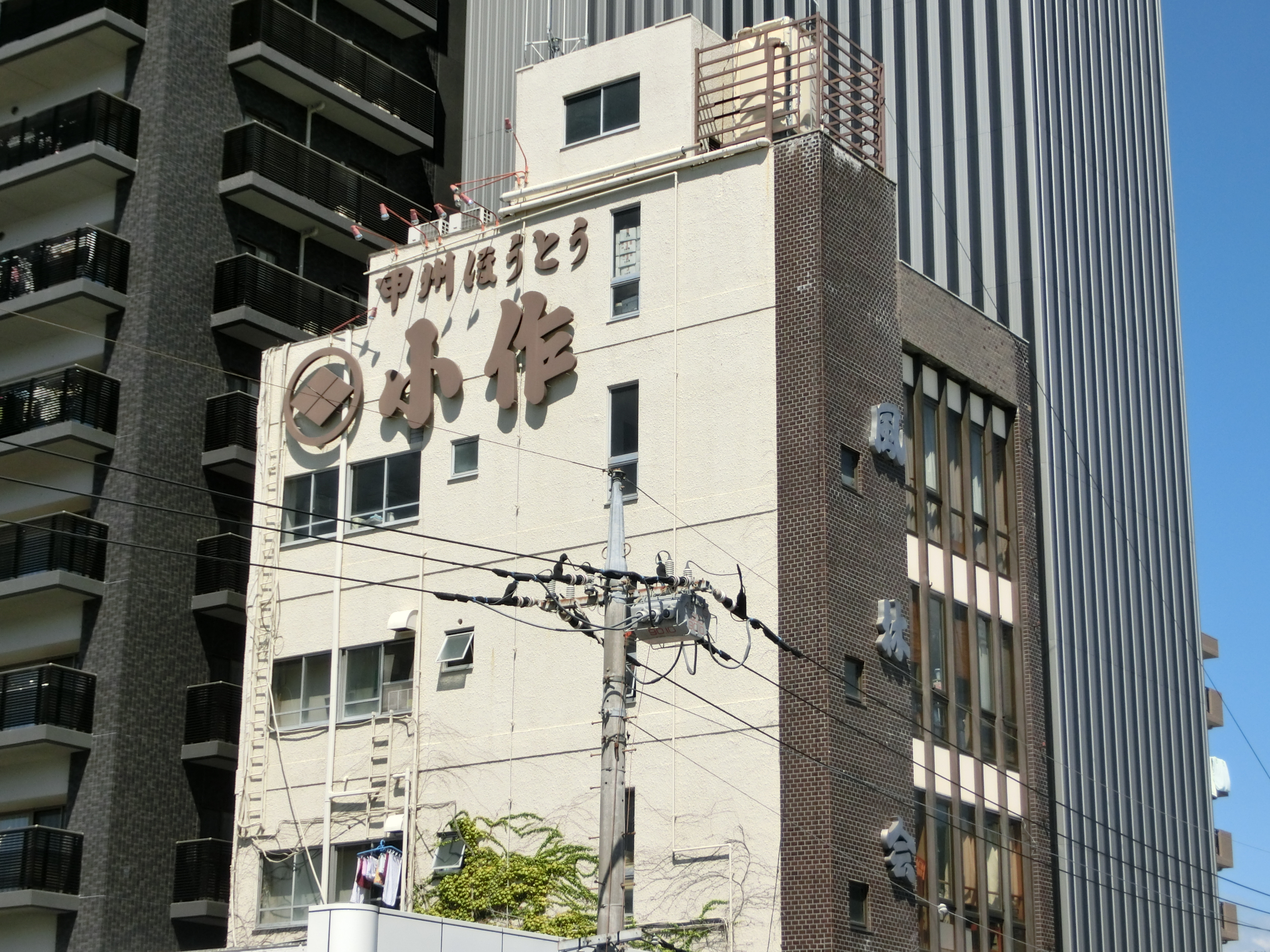 Koshu Hoto Kosaku Head Office